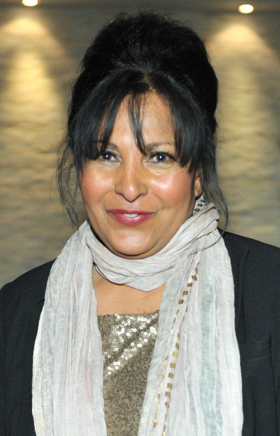 Pam Grier at a reception for "An Evening with Pam Grier", hosted by TD, CFC and Clement Virgo. To learn more, please visit